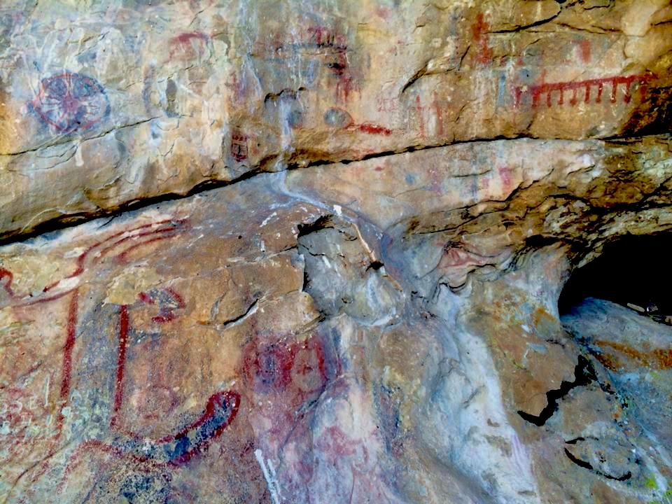 Pictographs at Painted Rock in Carrizo Plain National Monument